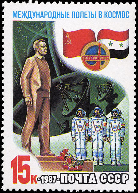 Stamp of the Soviet Union, space exploration, Yuri Gagarin, 1987